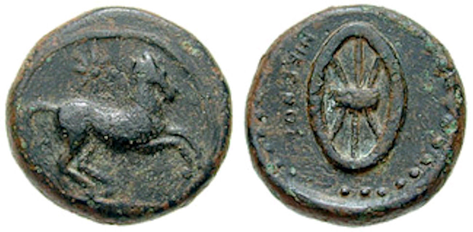 A wheel from one of the pillars of Ashoka.KYRENAIKA, Kyrene . Circa 322-313 BC. Æ 19mm (8.14 gm). Horse running right; star above / NIKWNOS, six-spoked wheel.